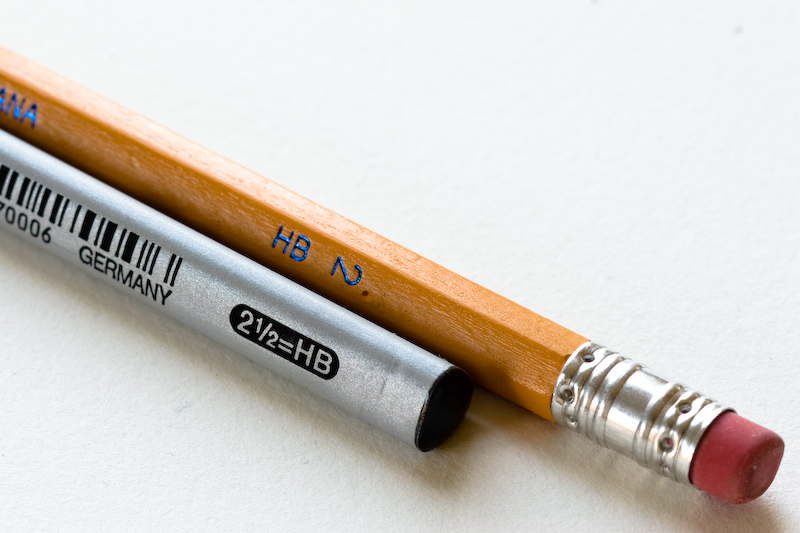 Two pencils of grades HB, but one labeled #2 1/2 and the other #2.